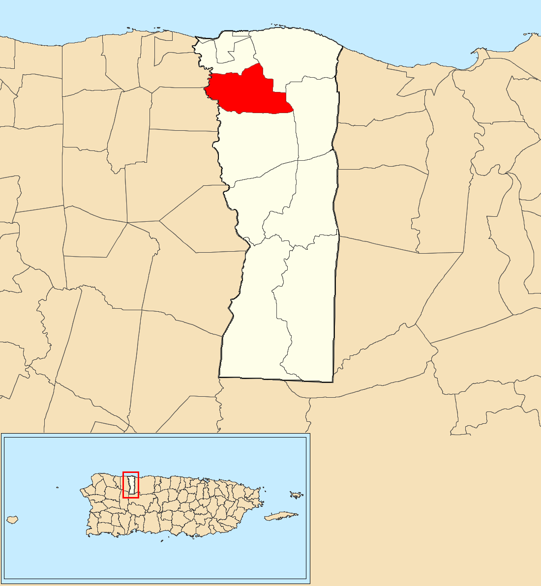 Capáez, Hatillo, Puerto Rico locator map